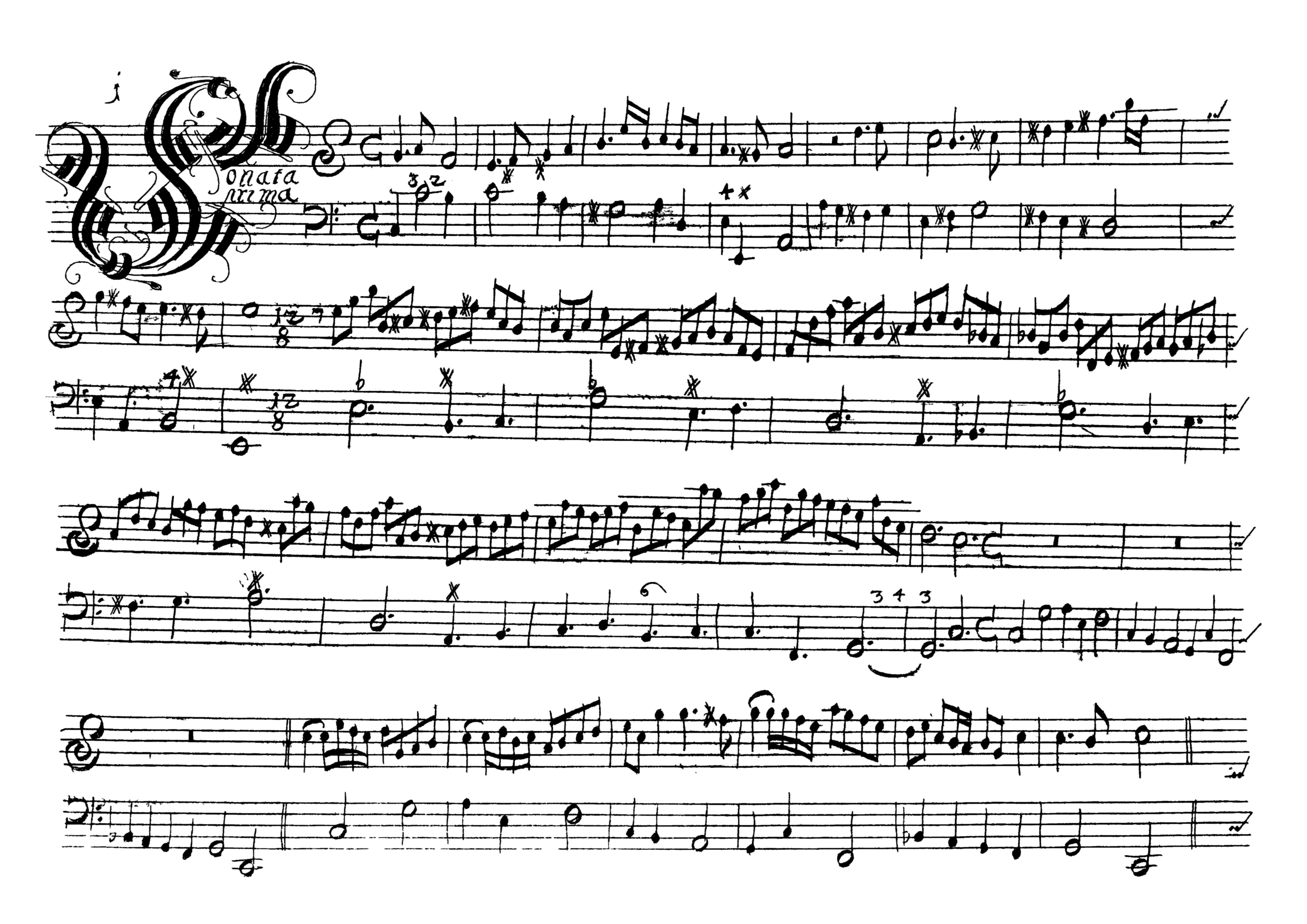 First page of the music score "Sonatæ unarum fidium seu a violino solo" from 1664.